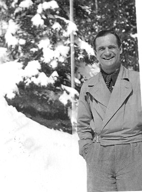 Julius Joachim Bartsch